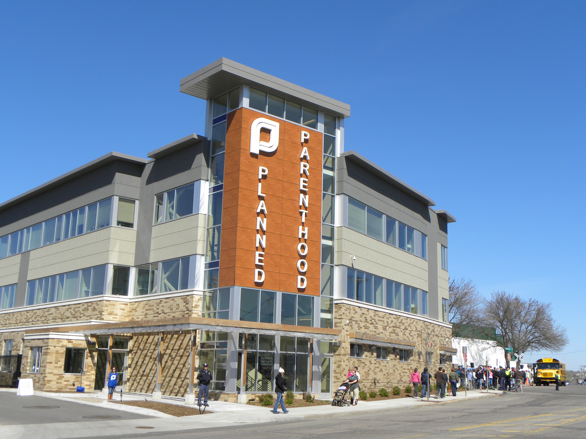 A Planned Parenthood facility in St. Paul, Minnesota.